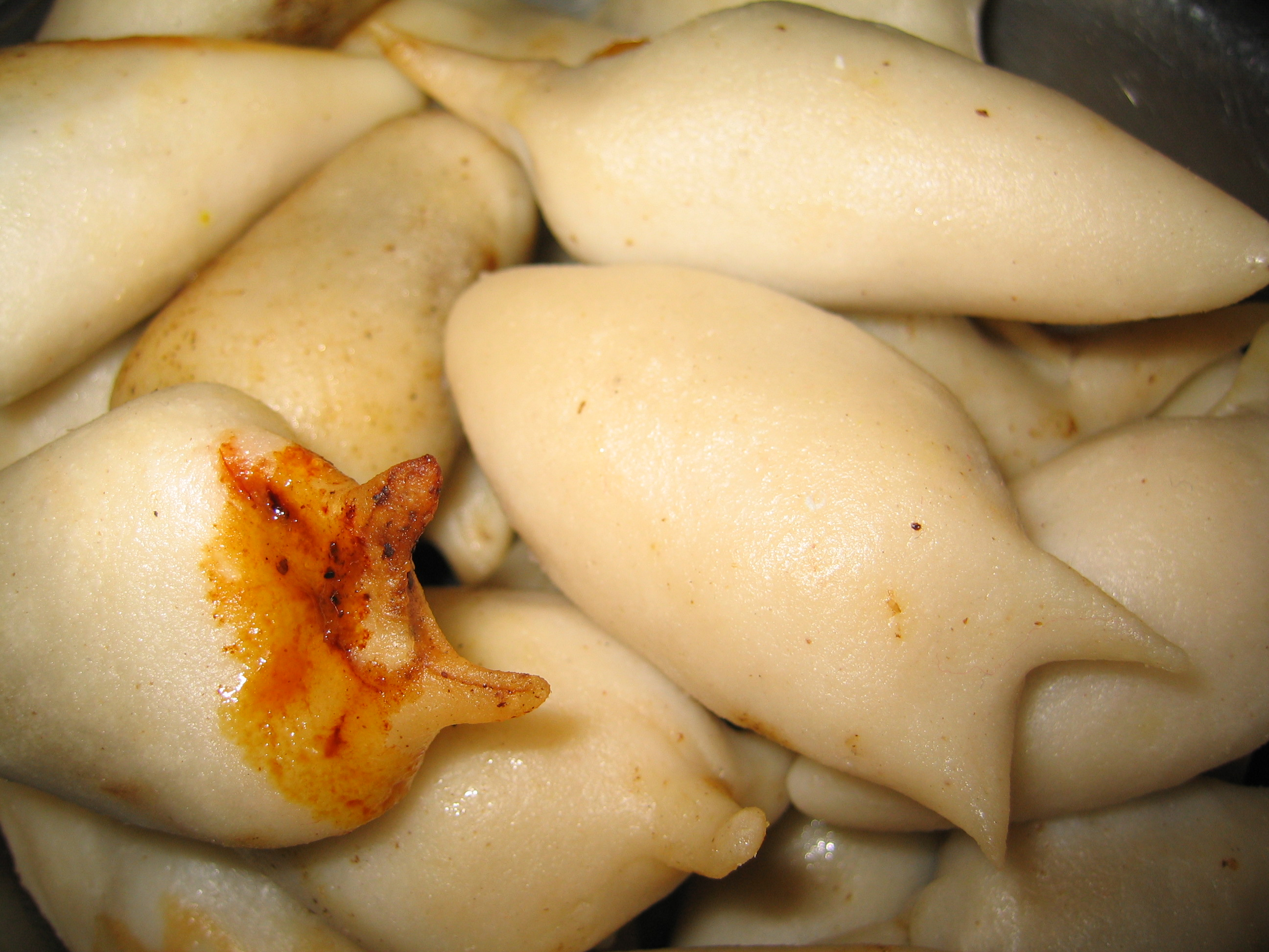 Yomari is a delicacy of Newars. It consists of an external covering of rice-flour and an inner content of sweet substances such as Chaku. The delicacy plays a very important role in Newar society. According to some, the triangular shape of the yomari is symbolical representation of one half of shadkona, the symbol of Saraswati and wisdom